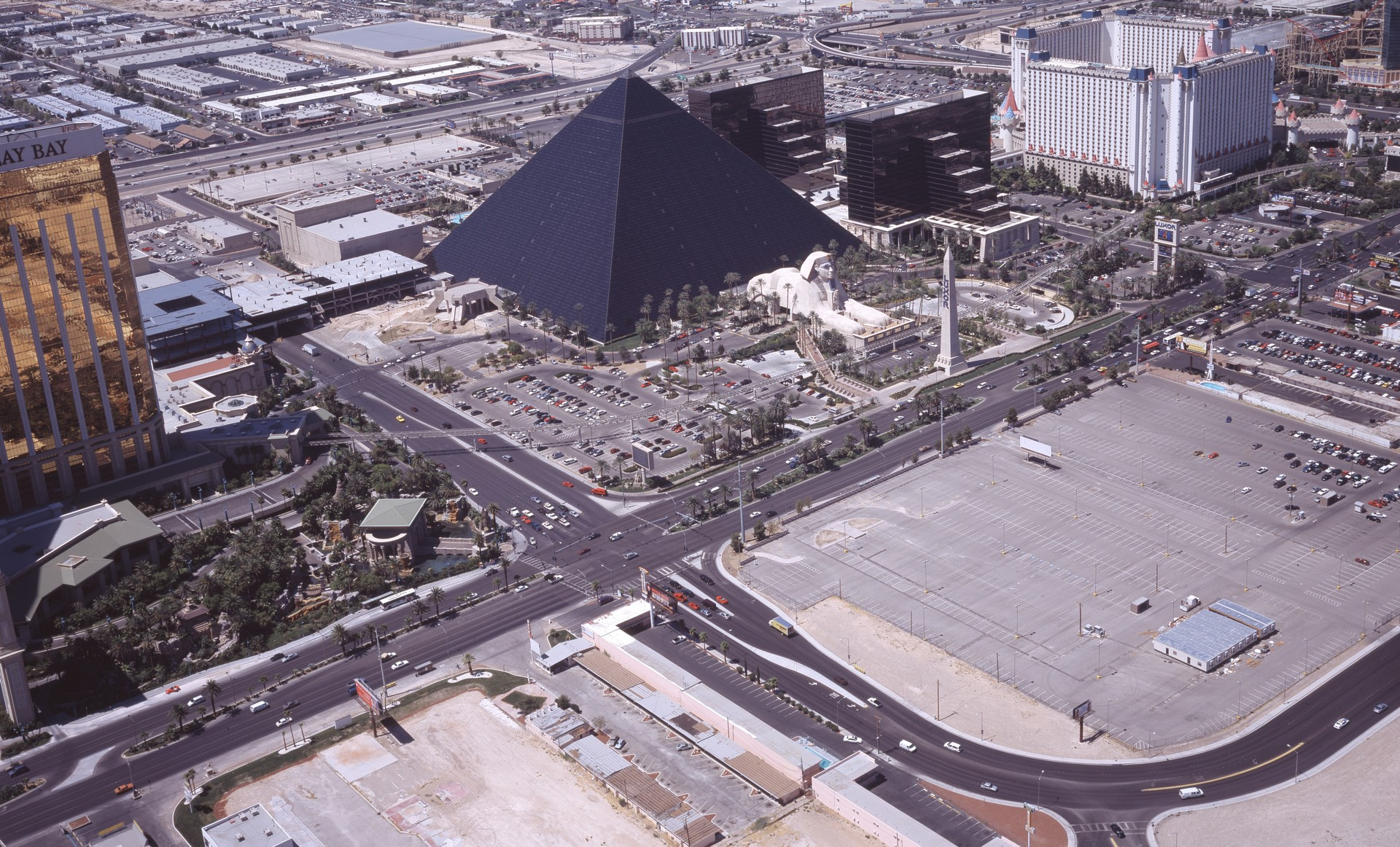 This is where the shooting took place. The Mandalay Hotel is the gold building on the left, and the concert area is on the right